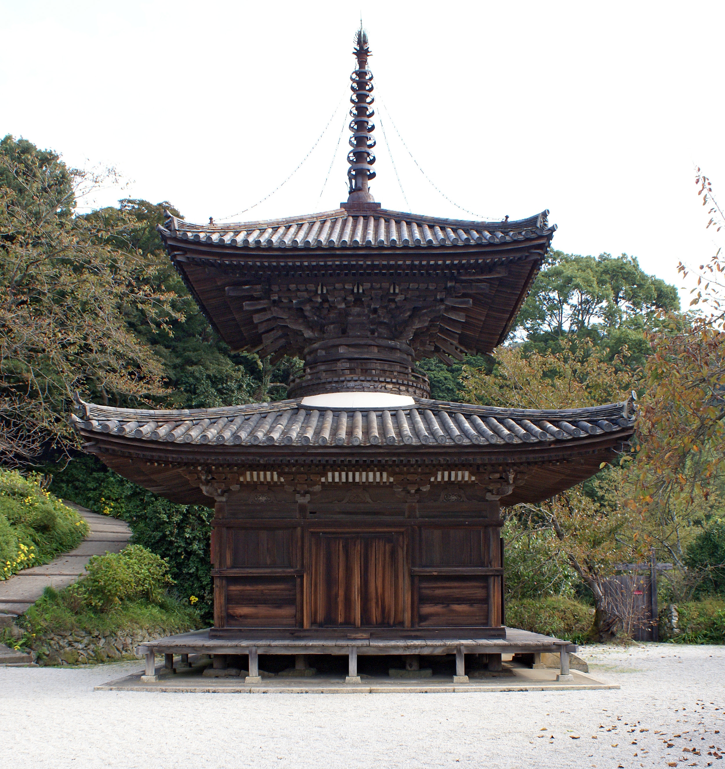 Tahōtō of Chōhō-ji is a Japan's National Treasure in Kainan, Wakayama prefecture, Japan It was rebuilt in 1357.